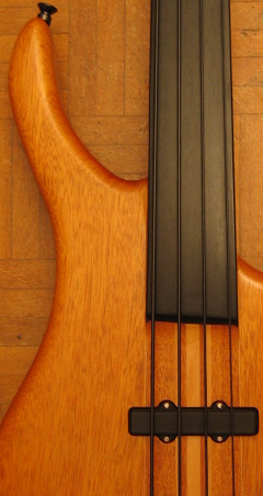 Fretless bass